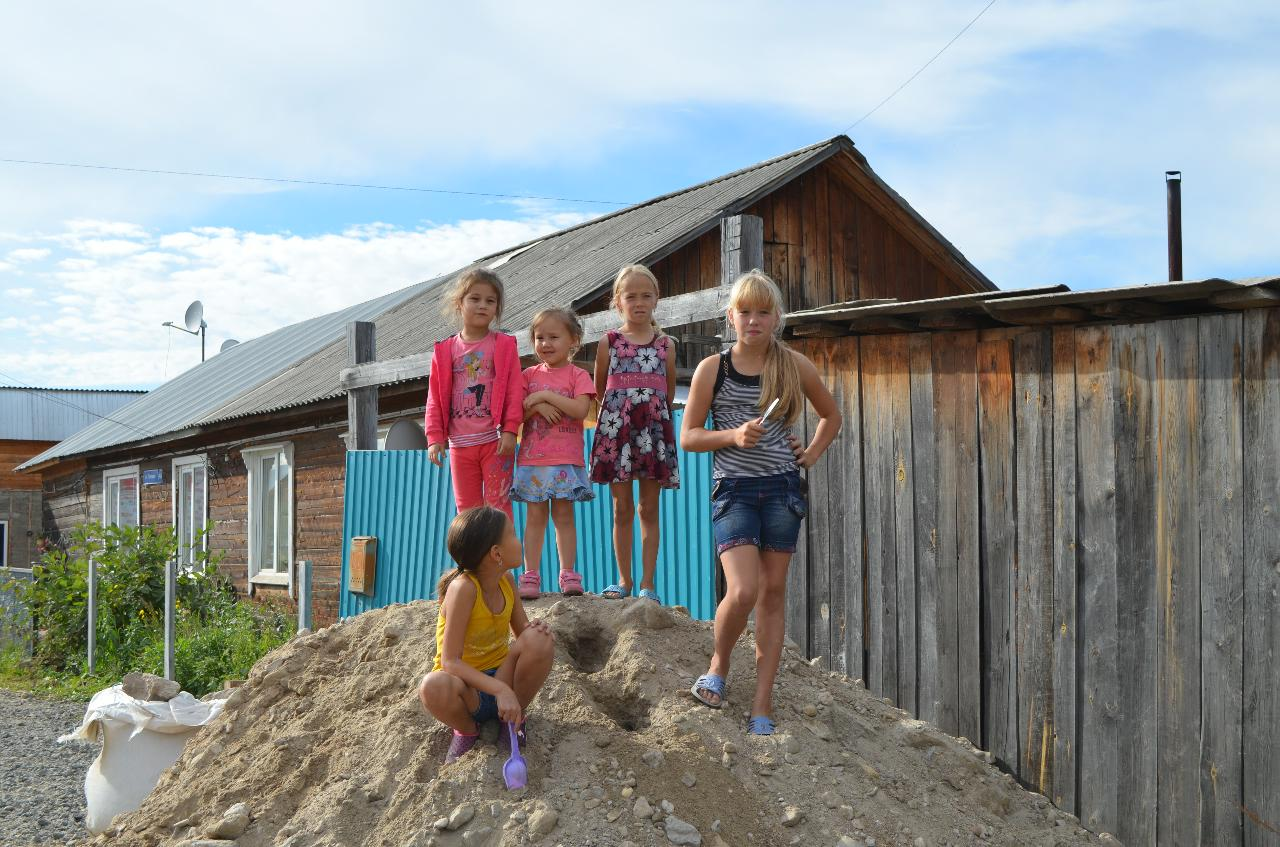 This photos are made during cruise Yakutsk — Lеnskiye Shchyoki, Lena Cheeks — Yakutsk (with arrival in Mirny), 05.09−17.09.2016